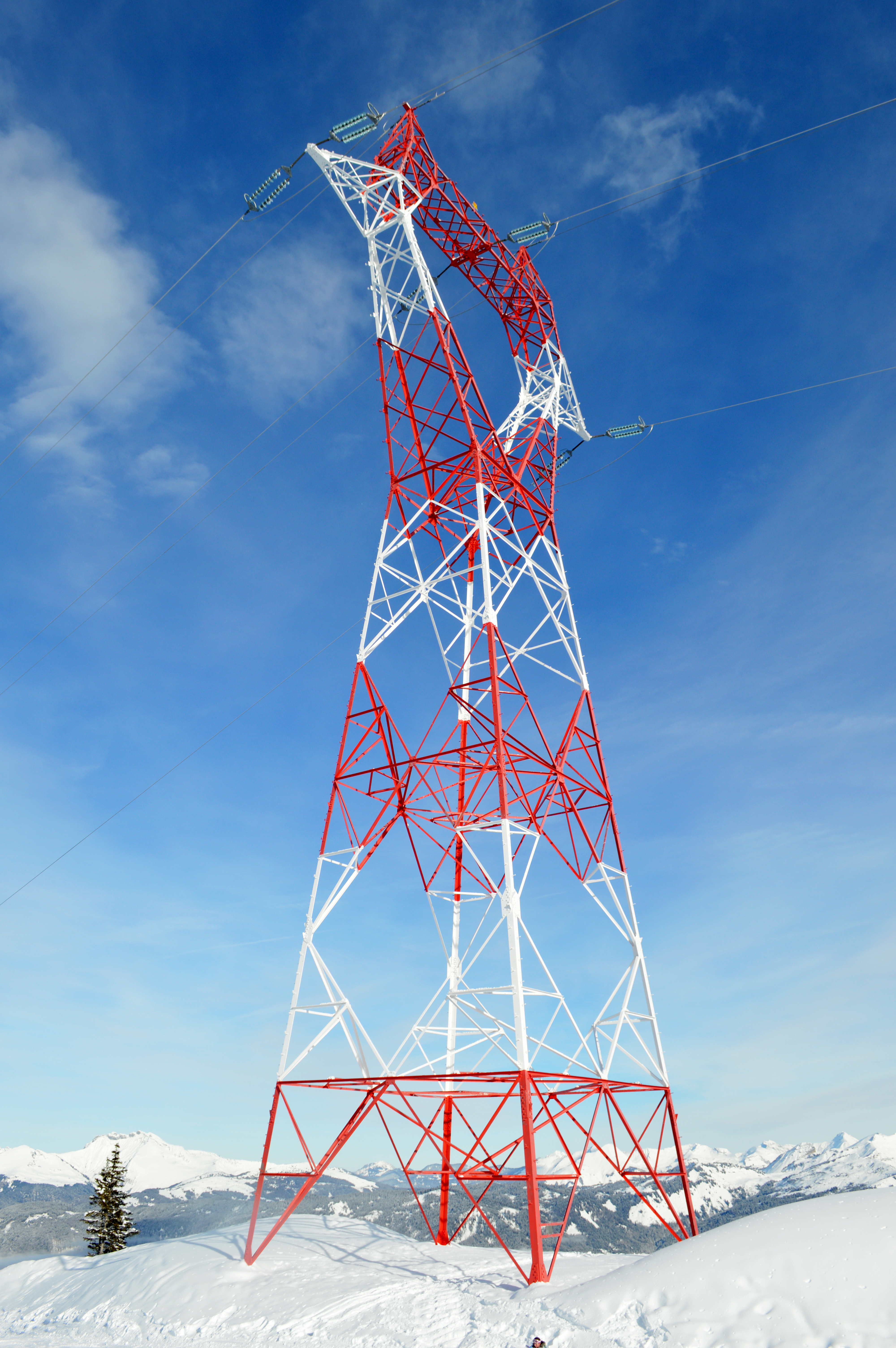 A red-and-white electricity pylon in the ski domain of Les Carroz, on the territory of Arâches-La-Frasse, Haute-Savoie, France.